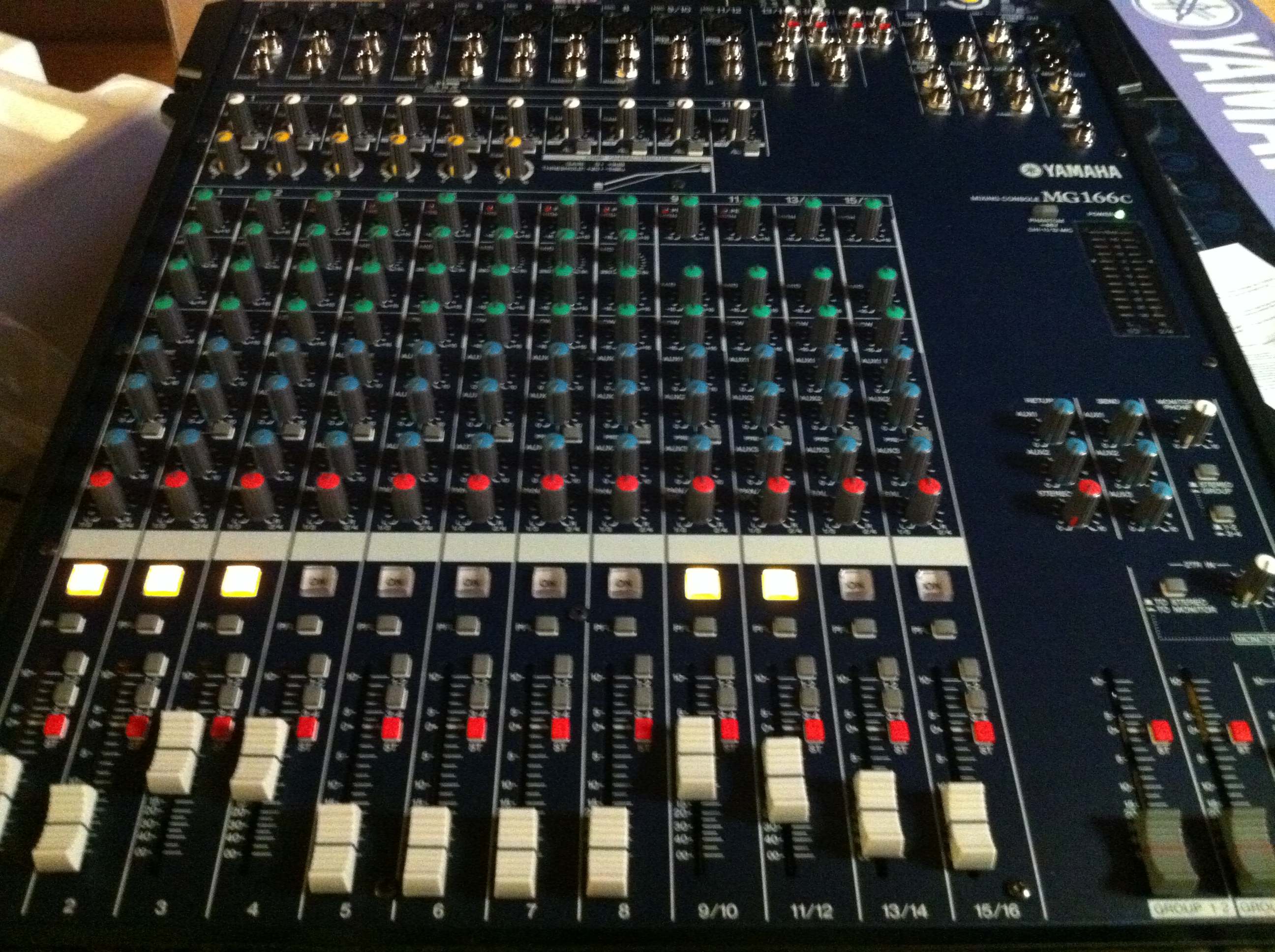 Yamaha MG166C 16in(10mic,4stereo)/6bus(4group,3aux) small mixer